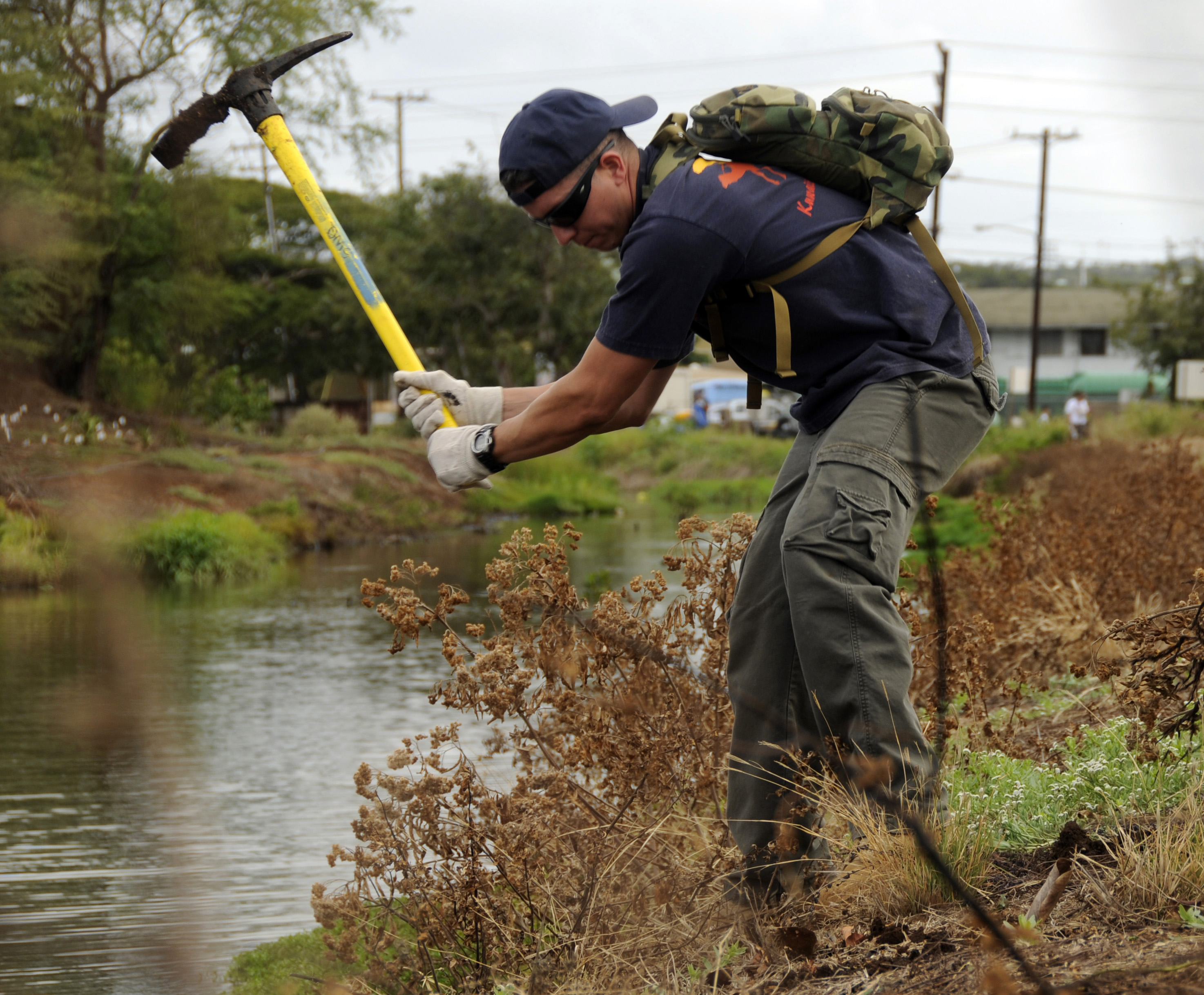 WAIPAHU, Hawaii (April 17, 2010) Master-at-Arms 2nd Class Ingellis Vincent, assigned to Joint Base Pearl Harbor-Hickam, clears weeds at the Kapakahi Stream. The U.S. Navy, along with the city of Honolulu and the Pearl City Lions International Hawaii, participated in the 4th annual Pearl Harbor Basin (bike path) cleanup. (U.S. Navy photo by Mass Communication Specialist 2nd Class Mark Logico/Released)